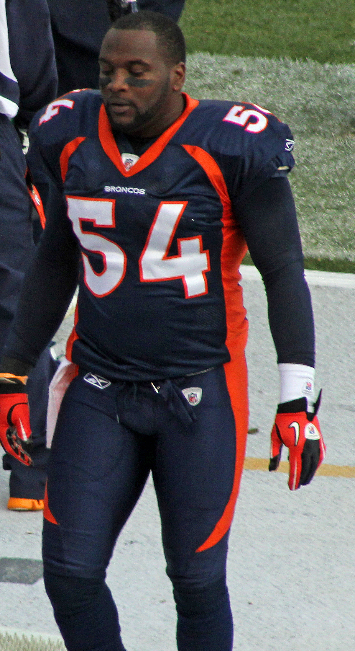 Lee Robinson, a player on the Denver Broncos American football team.